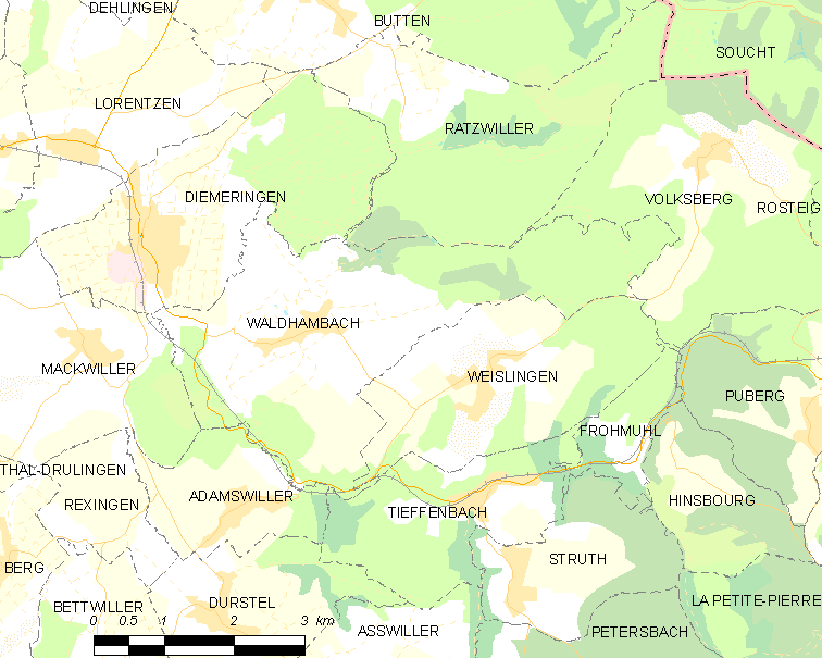 Map of French municipality